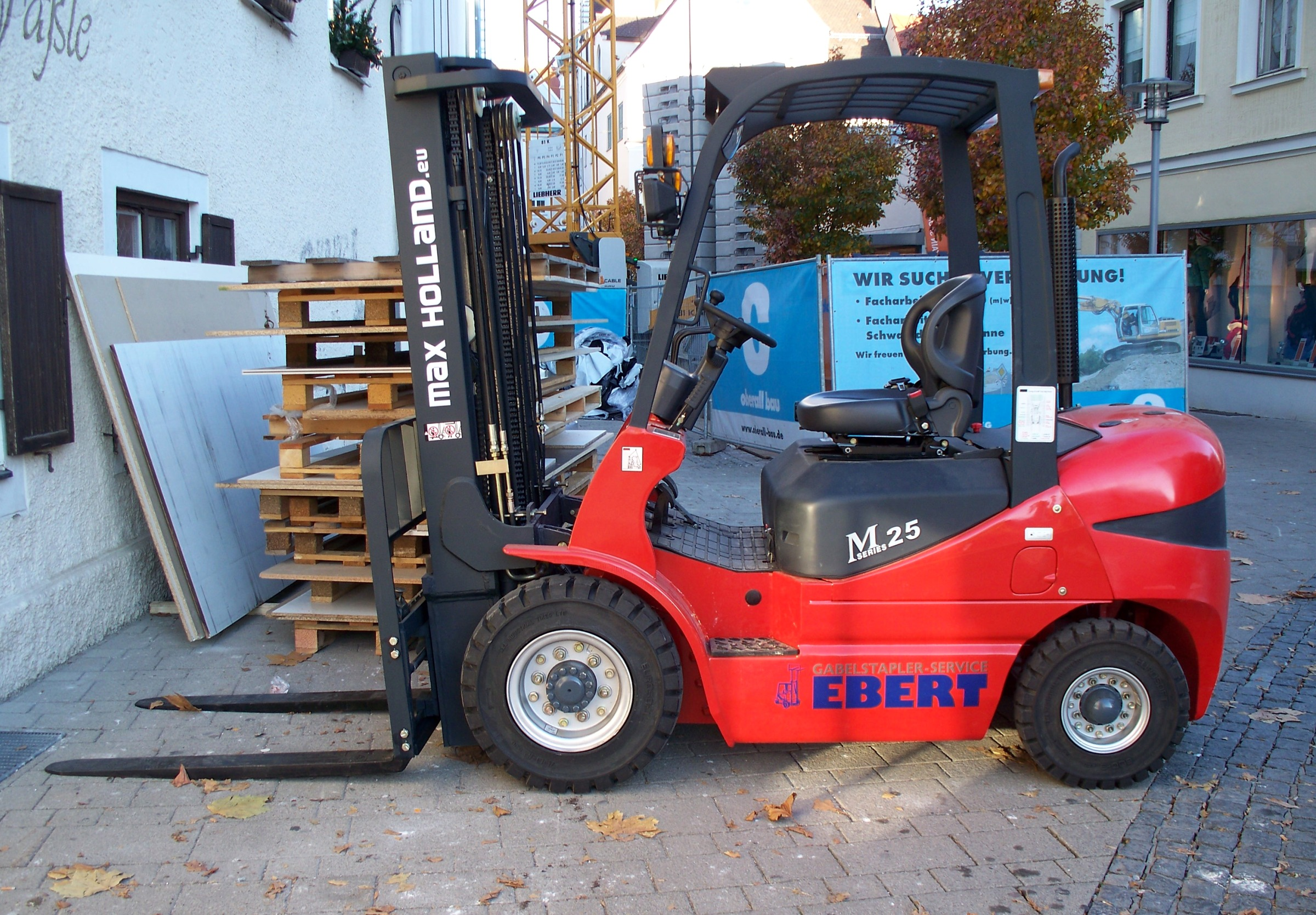 Max Holland M25 forklift.